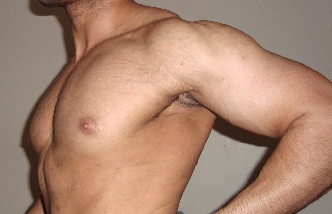 stretch marks on chest/shoulders of a male